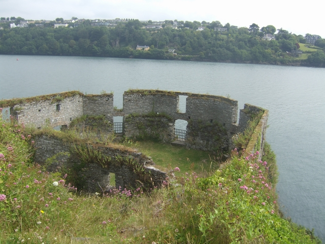 James Fort - Blockhouse Built to support Charles Fort on the opposite side of the entrance to Kinsale Harbour.